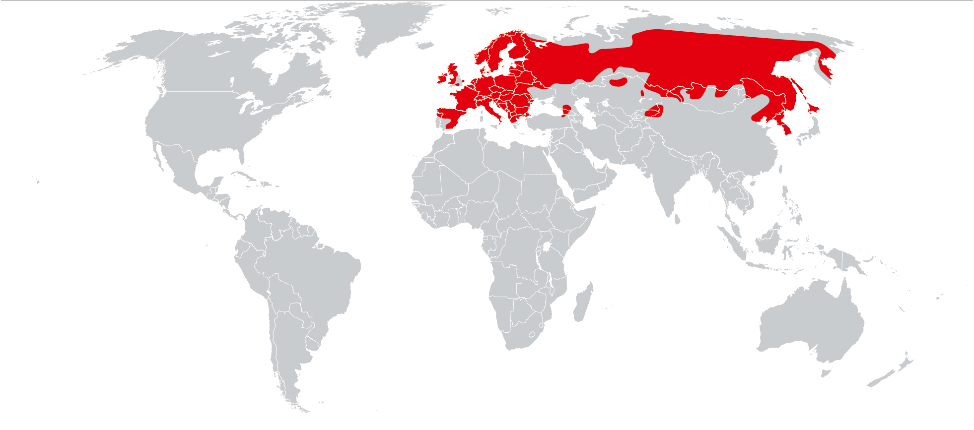 Habitat map of the Red Squirrel